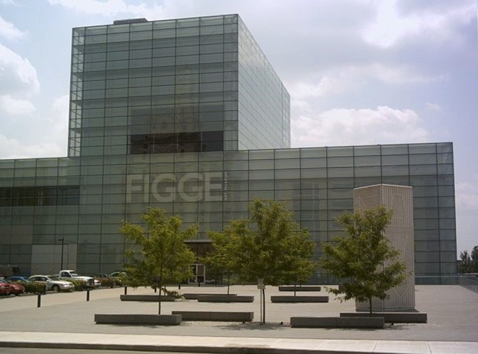 The Figge Art Museum in downtown Davenport, Iowa, United States.